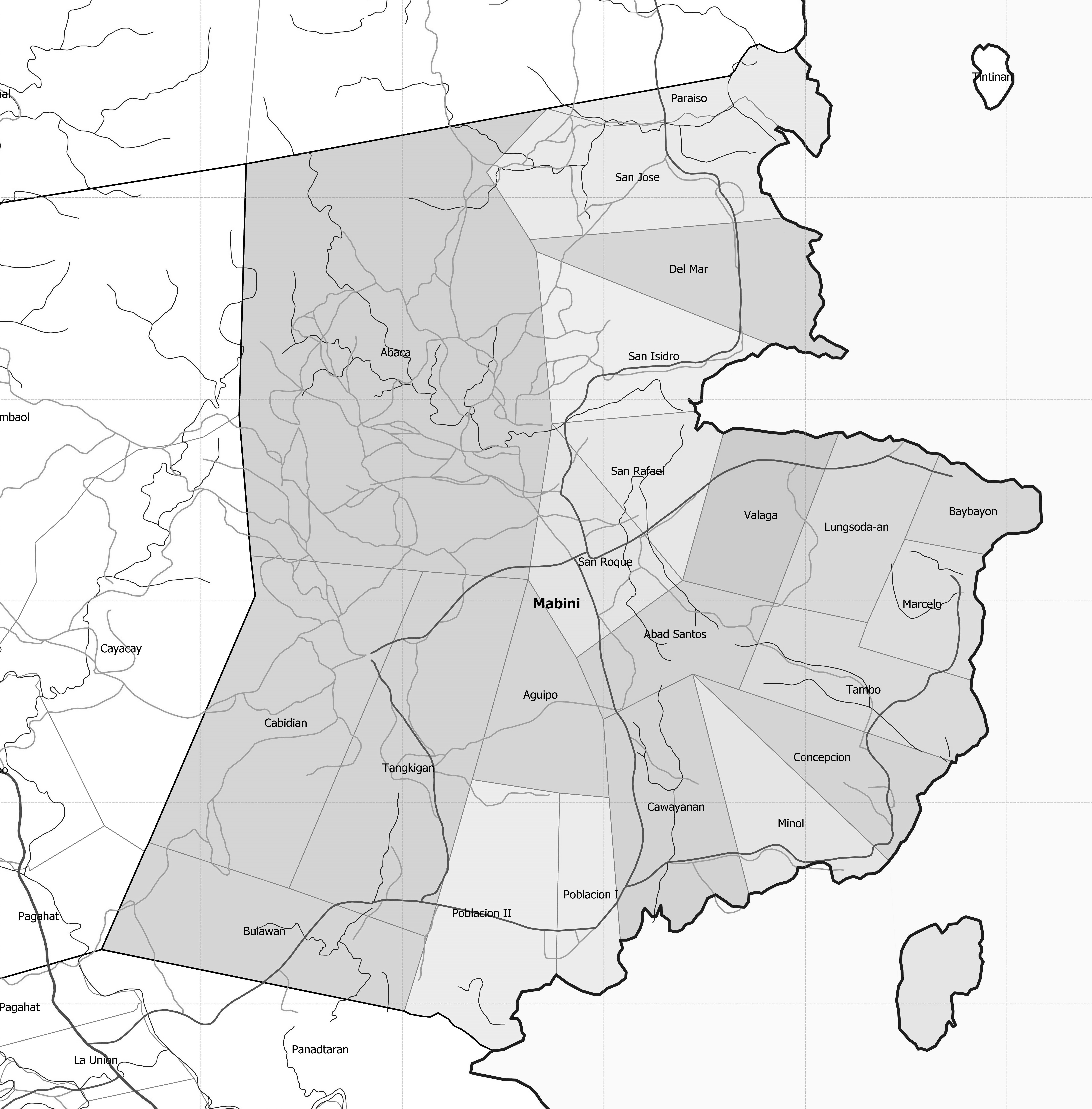 Detail map of Mabini, Bohol showing barangays and islands